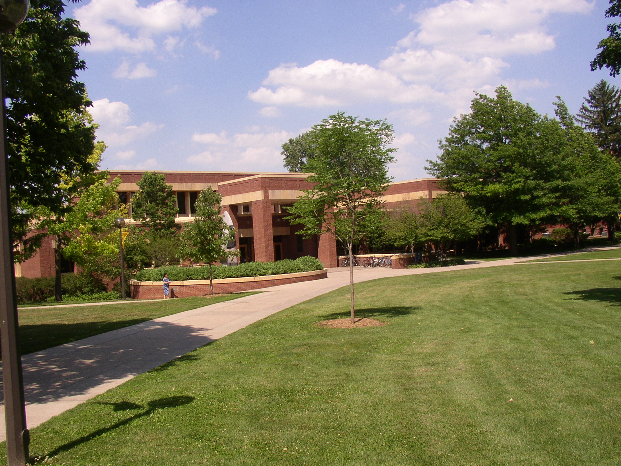 Carleton College is an independent, non-sectarian, coeducational liberal arts college in Northfield, Minnesota, USA. The school was founded on November 14, 1866, by the Minnesota Conference of Congregational Churches as Northfield College. In 1871, the name was changed to honor benefactor William Carleton of Charlestown, Massachusetts, who had given US$50,000 to the fledgling institution. The College currently enrolls about 1,900 undergraduate students, and employs 182 faculty members. Its current president is Robert A. Oden.